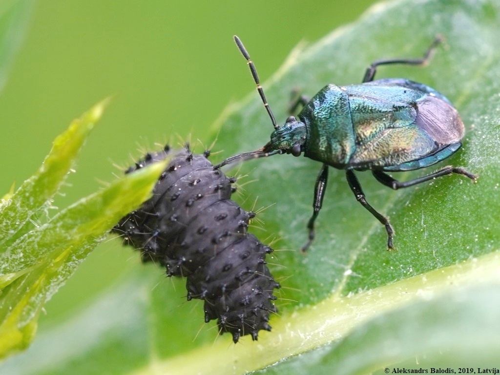 Zicrona caerulea